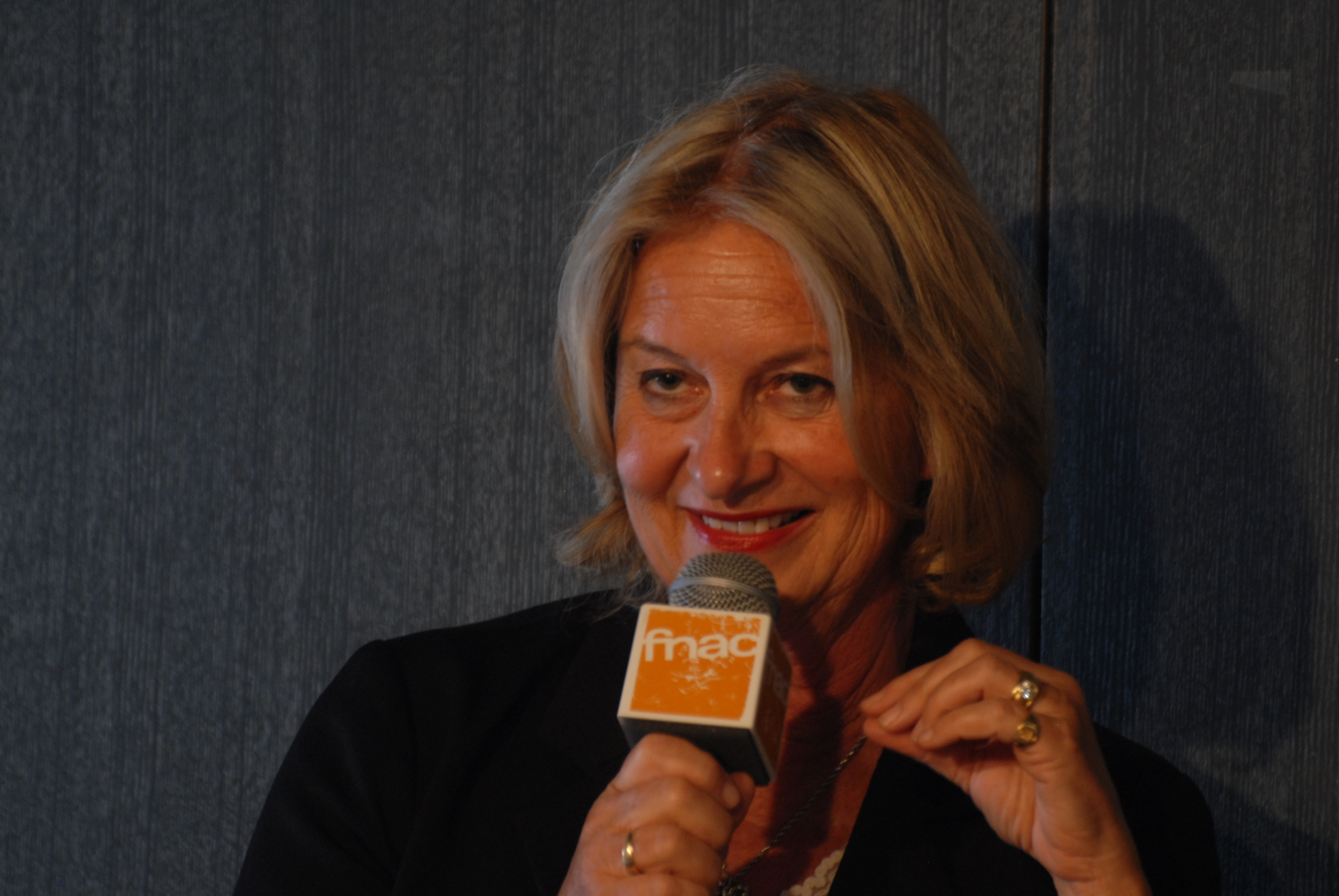 Marie de Hennezel in Toulouse to present her latest book, La sagesse d'une psychologue